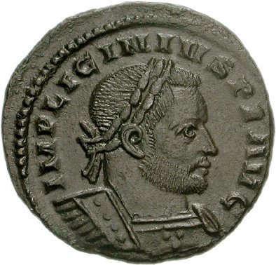 Licinius I. AD 308-324. Æ Follis (22mm, 4.57 g, 8h). Londinium (London) mint. Struck circa AD 310-312. Laureate and cuirassed bust right / Genius standing front, head left, holding patera and cornucopia; -*//PLN. RIC VI 209c. Near EF, dark brown patina.